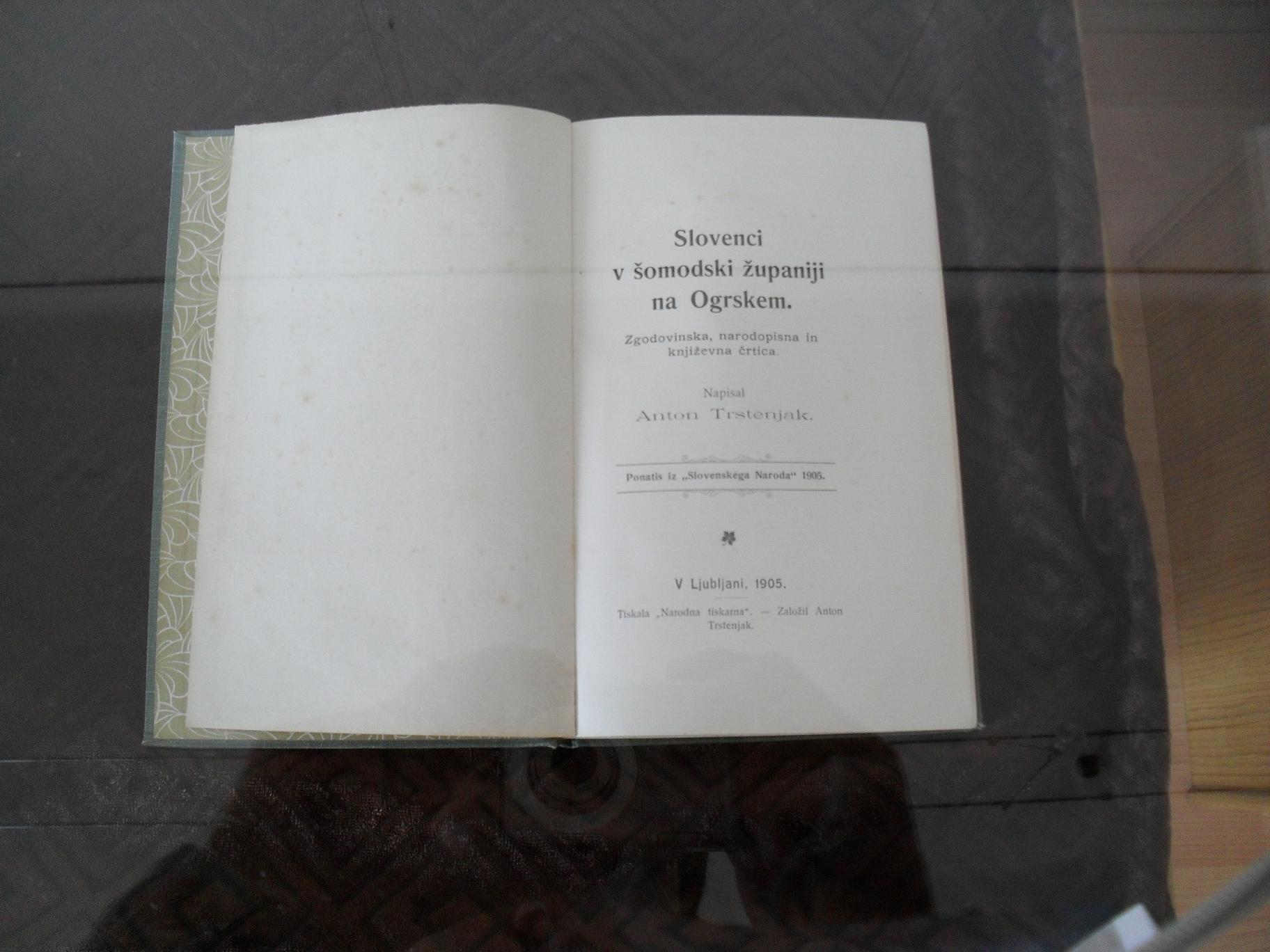 Anton Trstenjak: Slovenci v šomodski županiji, na Ogrskem (Slovenes in Somogy, in Hungary) in 1905. Trstenjak's memoir about the Somogy Slovenes, where speak the prekmurian language